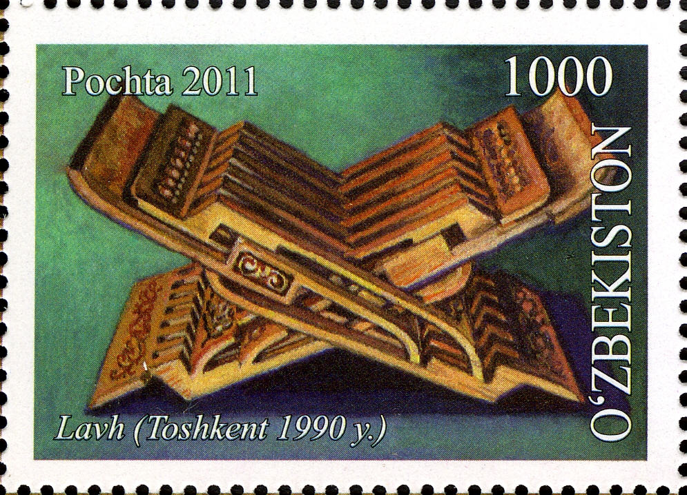 Stamps of Uzbekistan, 2011